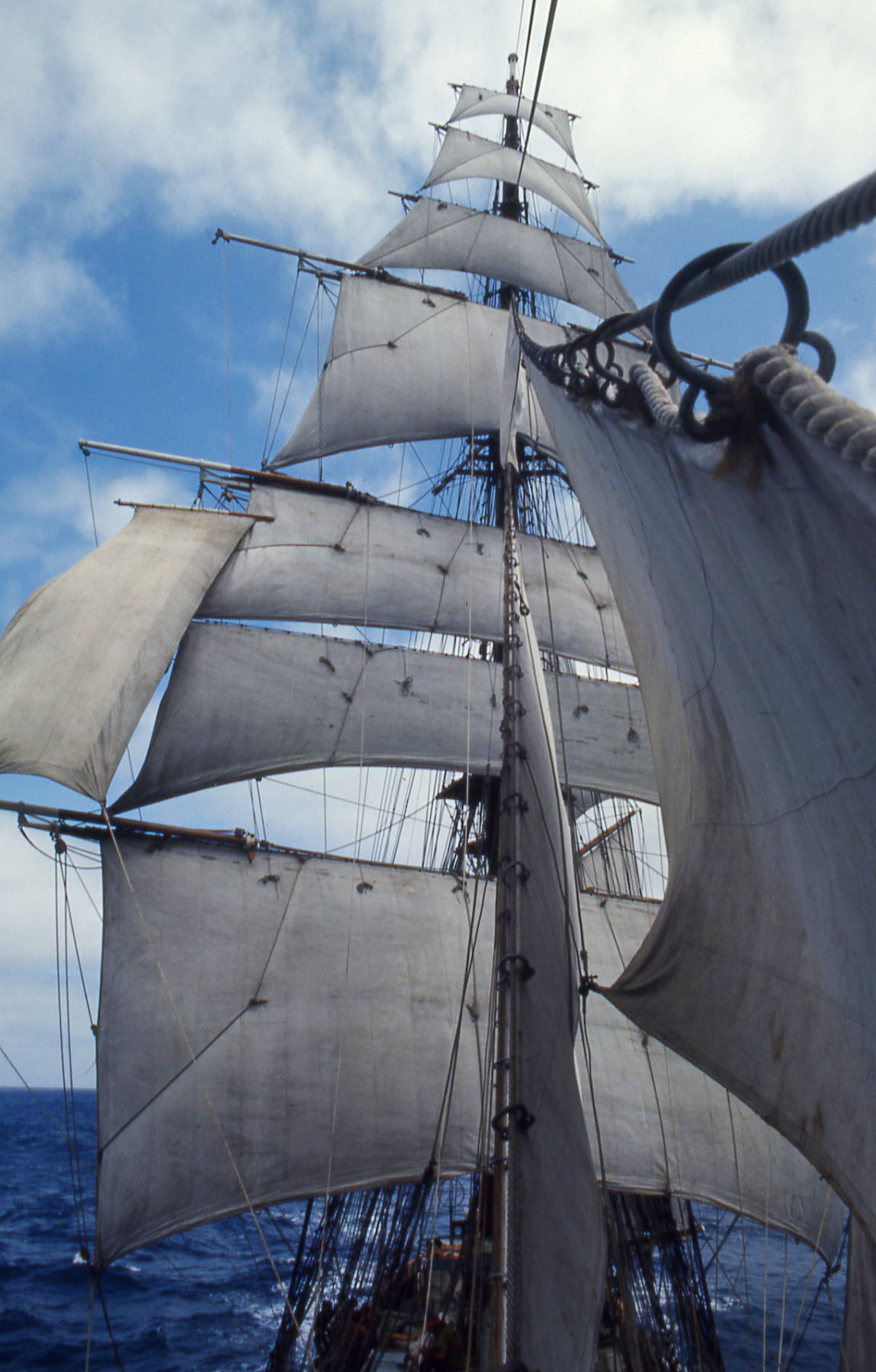 Regina Maris moonraker and studding sails